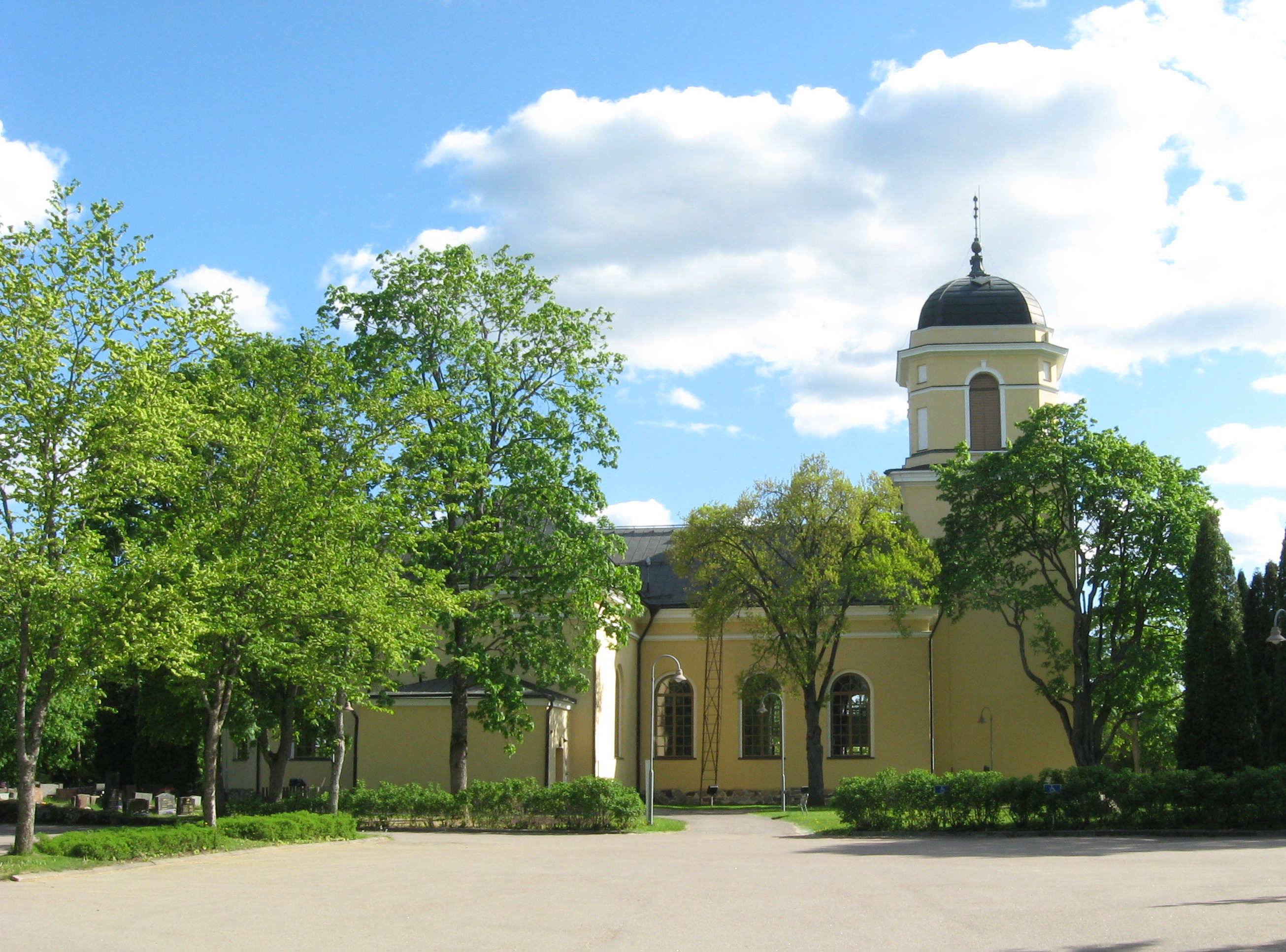 Vihti church, Vihti, Finland. Northern side.